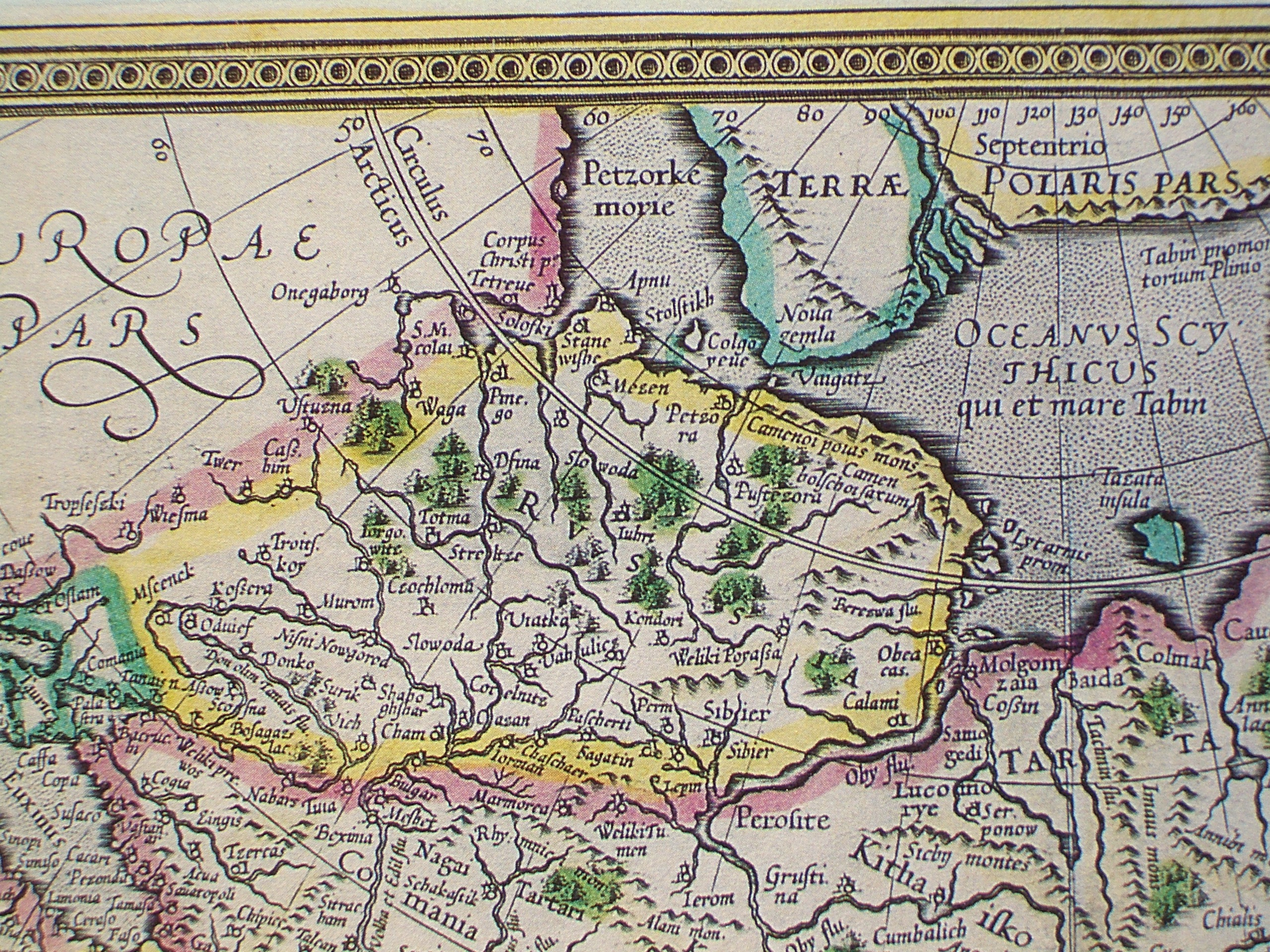 Asia from the great World [atlas] described by Gerhard Mercator, selected with zeal and diligence by Gerhard Mercator the Younger